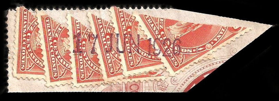 Bolivia 1924 revenue stamp 6 times 10c bisect used on piece 17 Jun 1926. Printed by Waterlow & Sons based on an original design of 1883 with minor changes. Akerman No. 29.